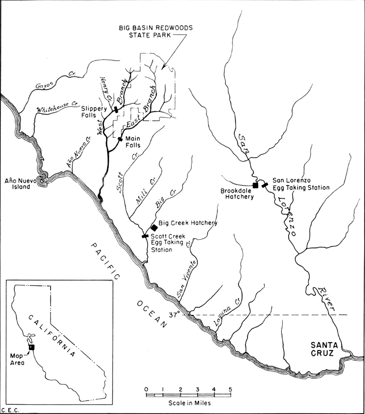 Map of Hatcheries on Big Creek tributary of Scott Creek and the San Lorenzo River with detail on Waddell Creek - all coho salmon and steelhead streams